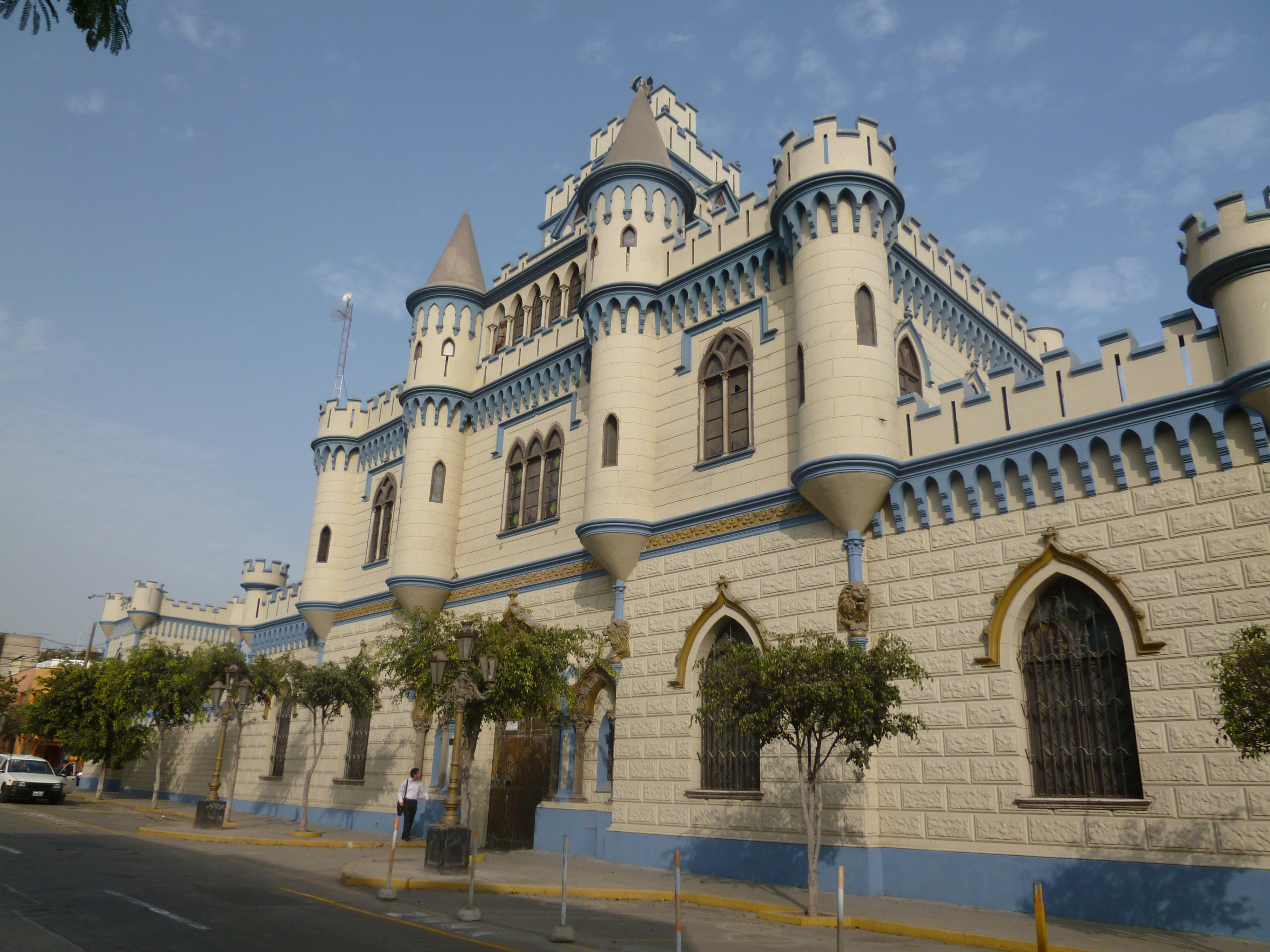 Built in 1929 by a wealthy citizen to host the Spanish king on his visit to Peru